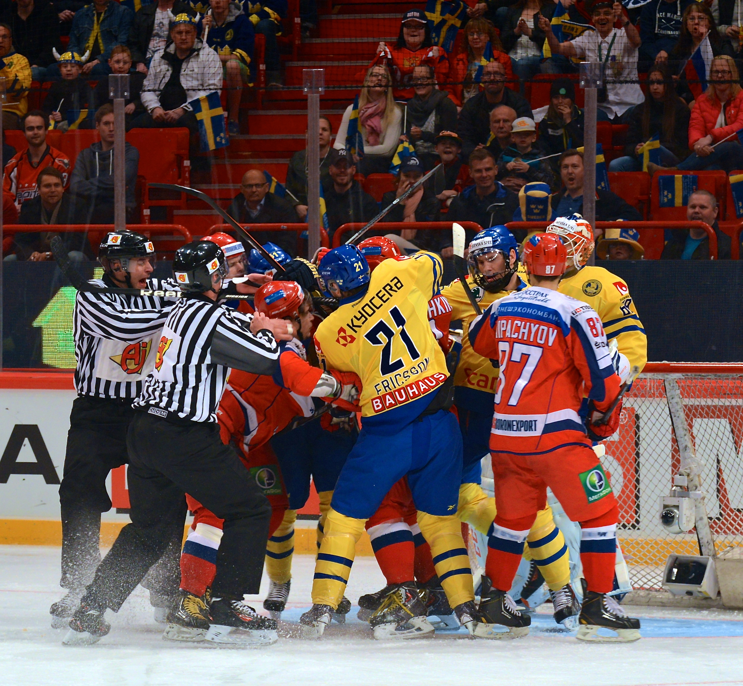 Ishockey Sweden-Russia (2-0) during Oddset Hockey Games at the Ericsson Globe in Stockholm on May 4th, 2014.